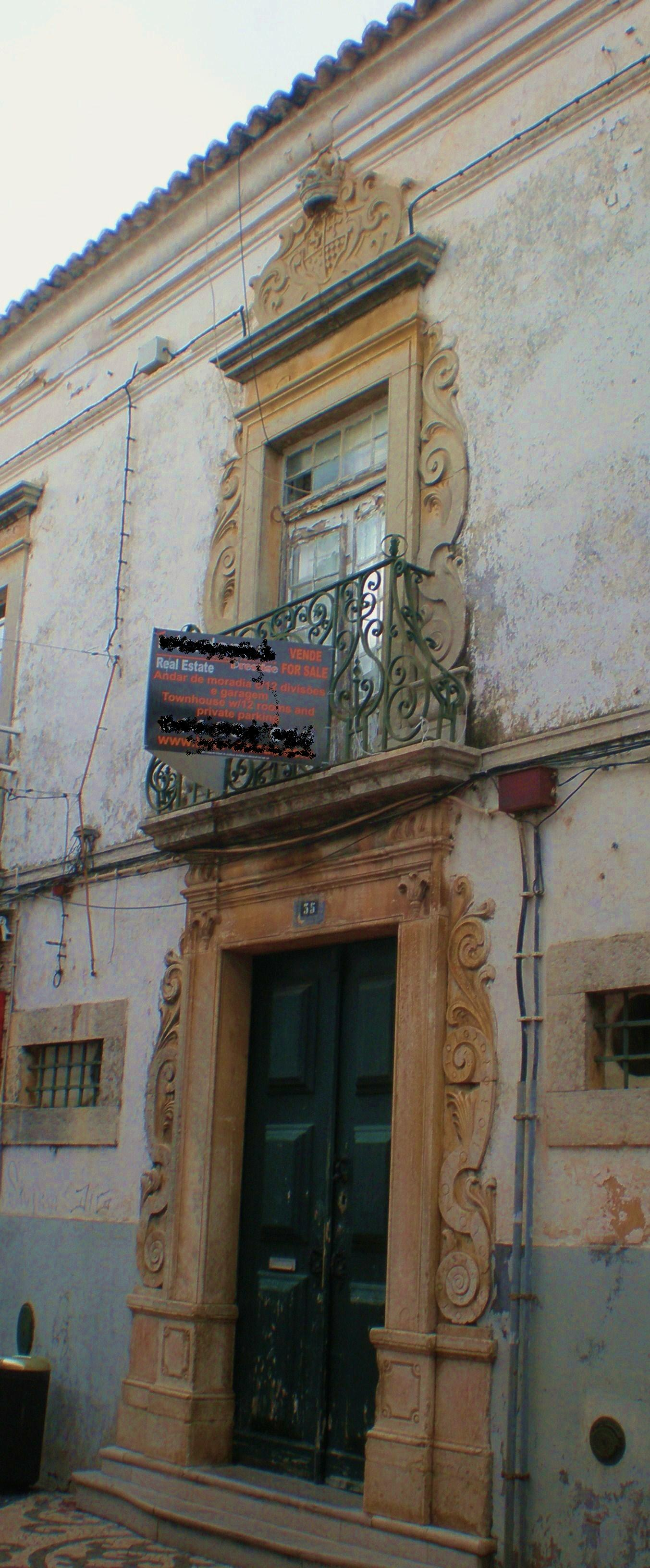 "Açafatas" House, Faro, Portugal